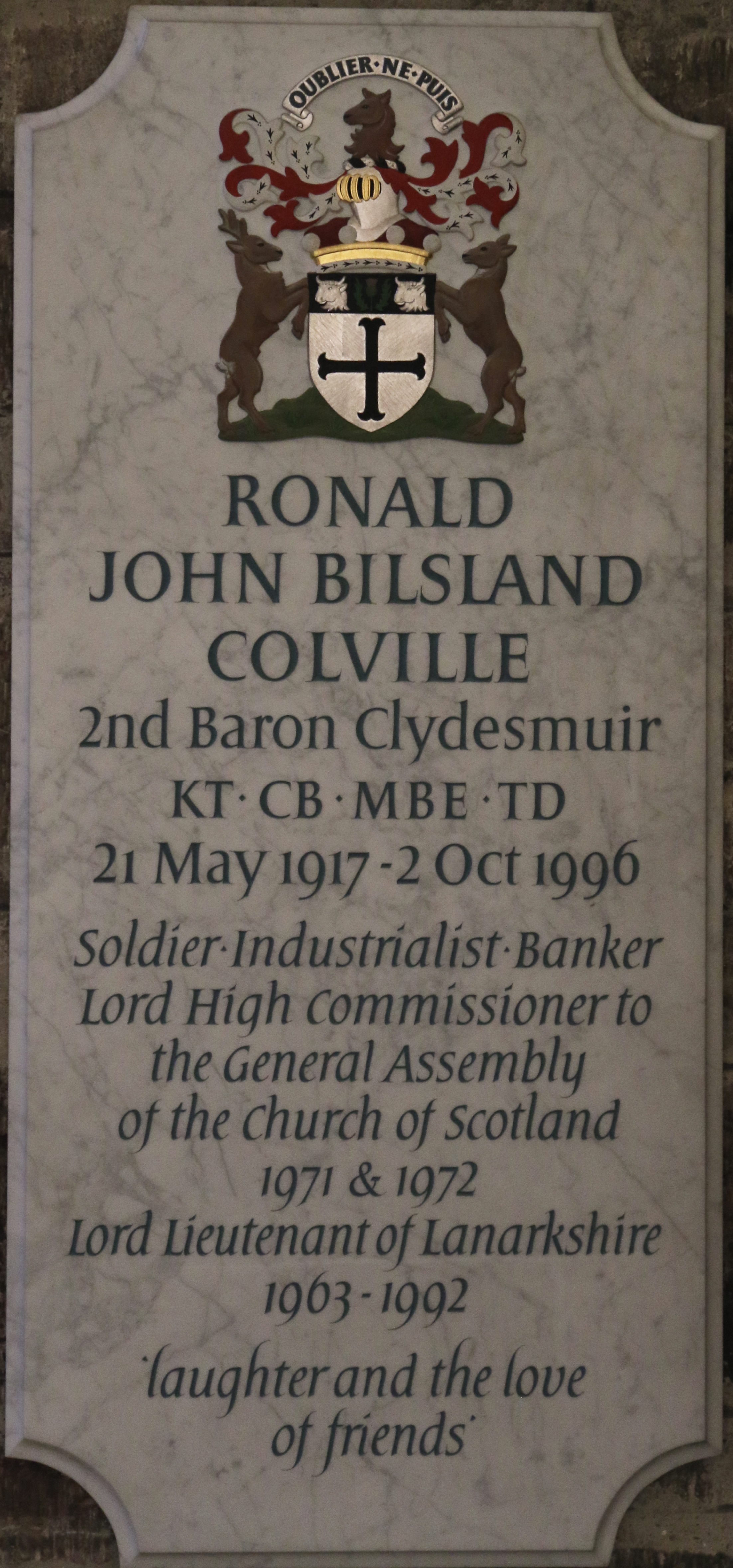 Ronald John Bilsland Colville, 2nd Baron Clydesmuir KT, CB, MBE, TD 21 May 1917 - 2 Oct 1996. Soldier, Industrialist, Banker Lord High Commissioner to the General Assembly of the Church of Scotland 1971 and 1972 Lord Lieutenant of Lanarkshire 1963 - 1992